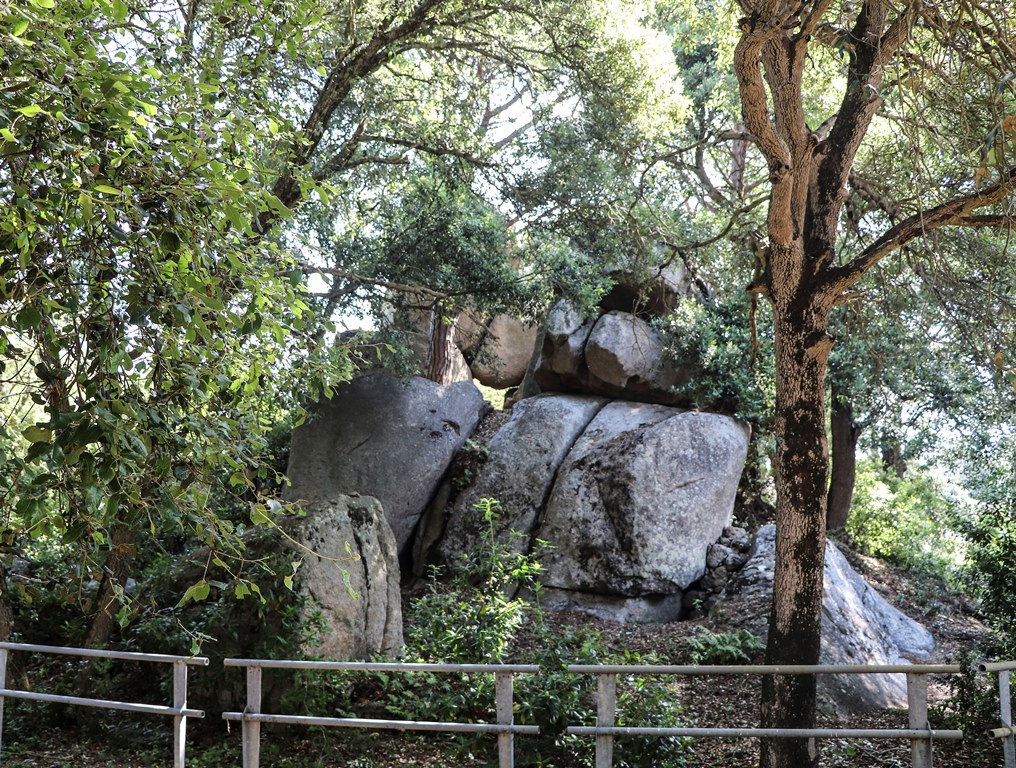 Rocs de Sant Magí